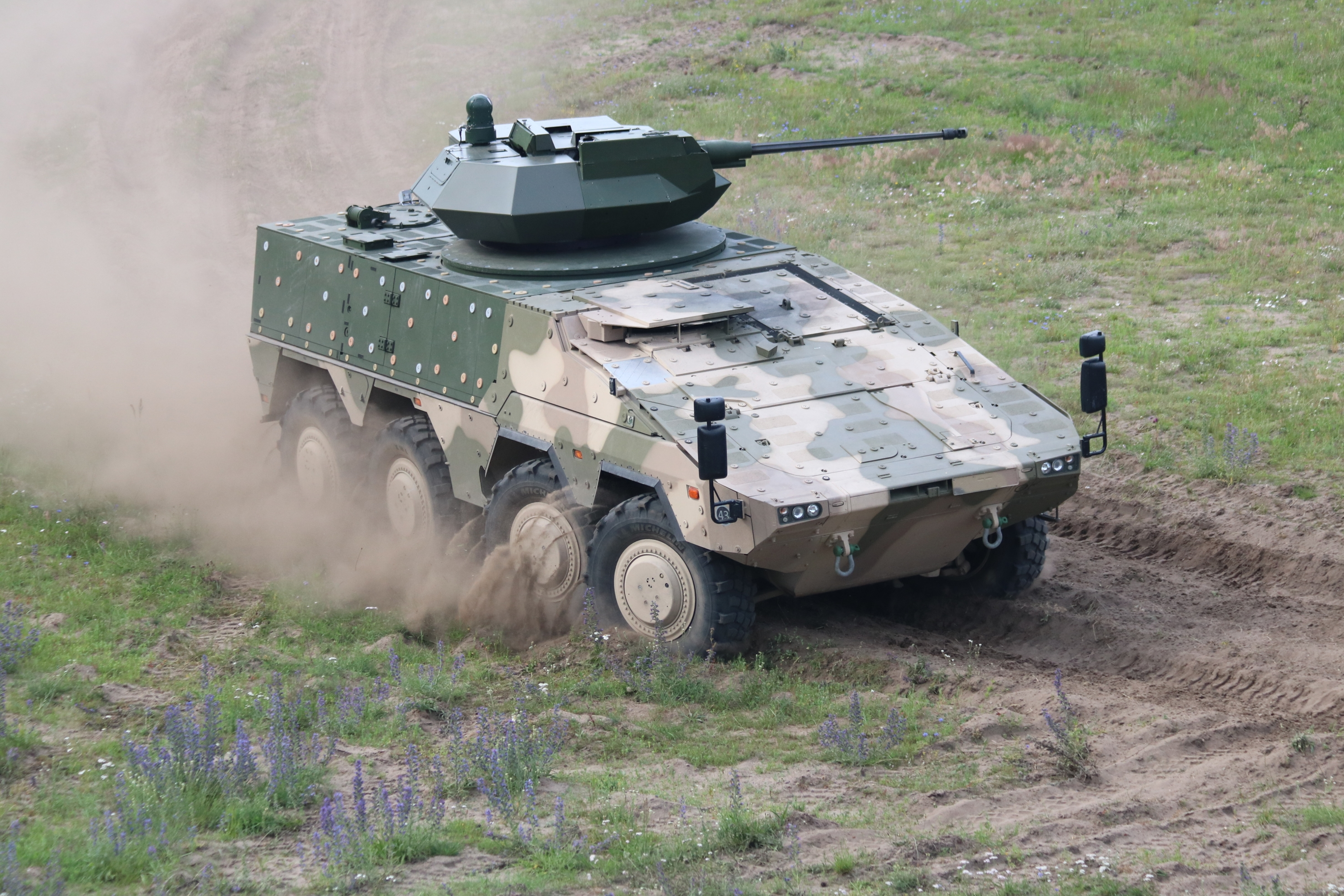 Prototype of Lithuanian Army Vilkas (Boxer) IFV.